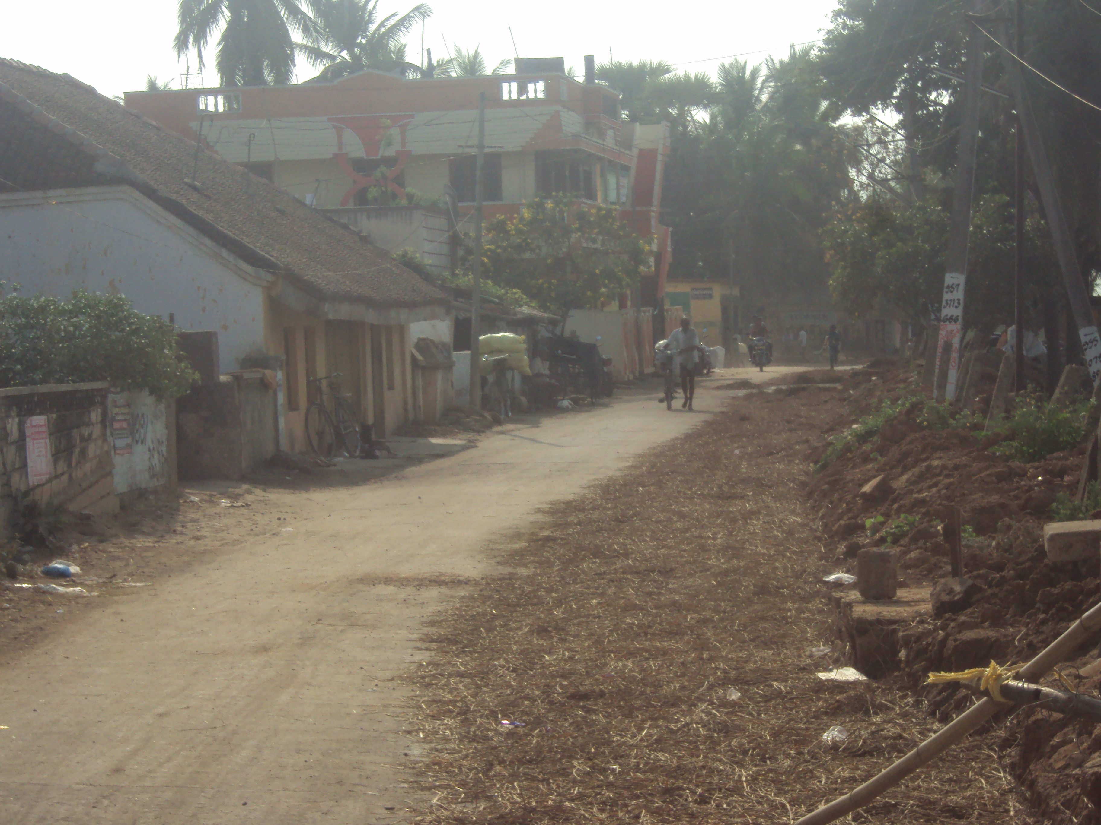 A.P. Village aakuteegapadu